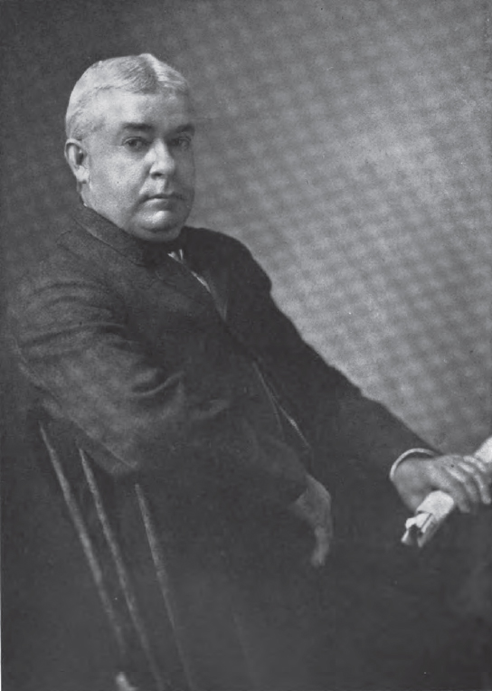 Kentucky Congressman James M. Richardson